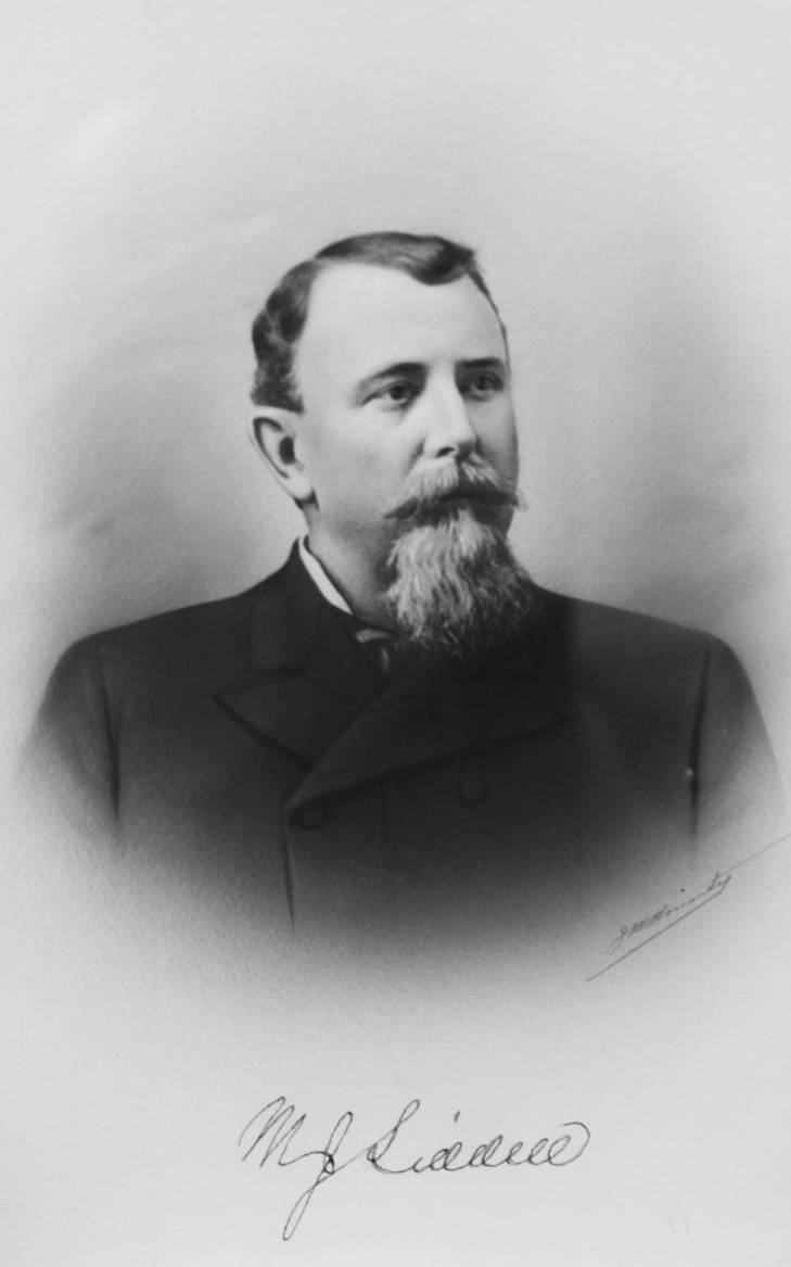 Signed engraving of Hon. Moses J. Liddell. Served as Montana Territorial Supreme Court Associate Justice 1888-1889. Appointed by President Cleveland.